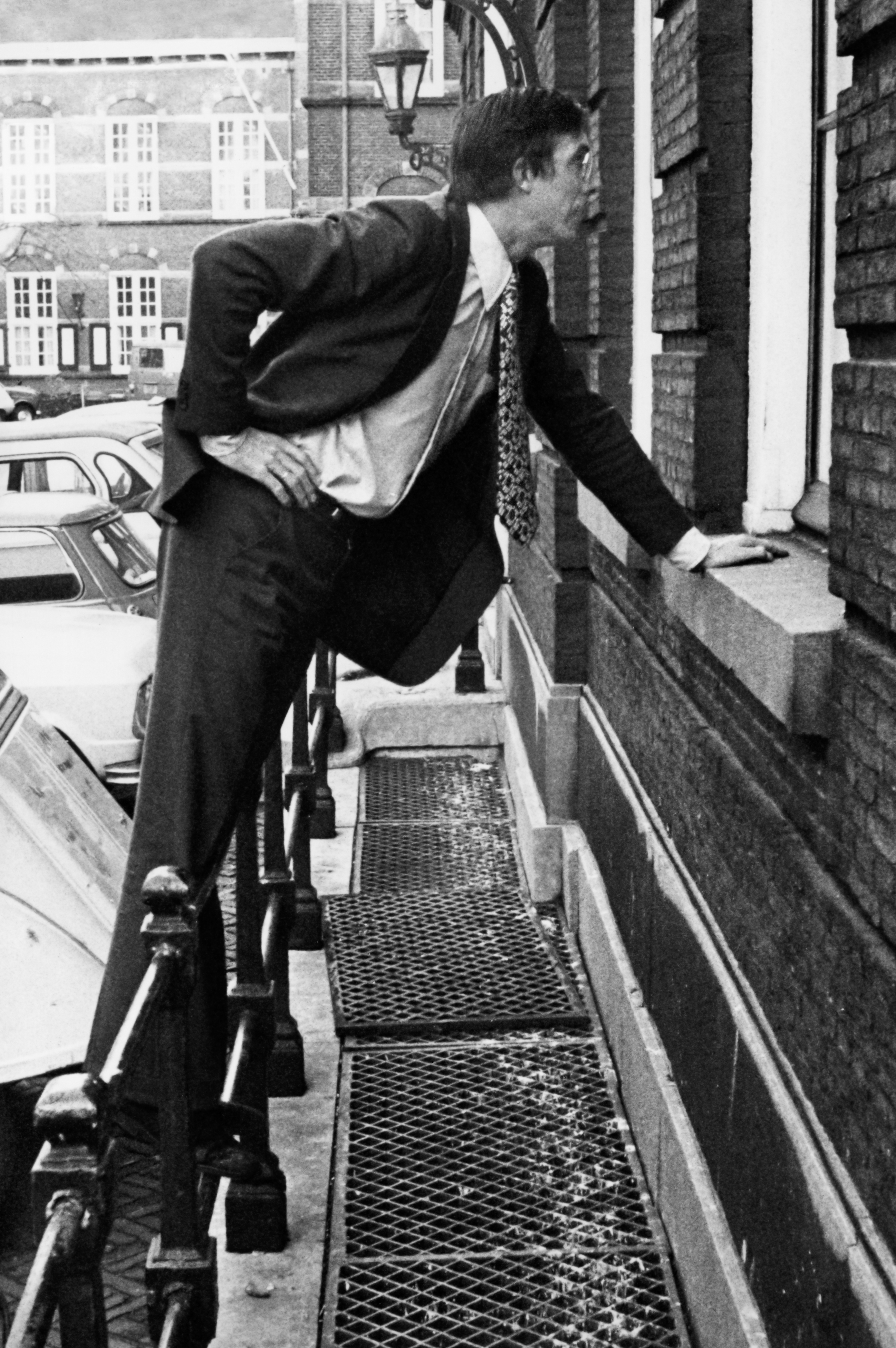 Staatssecretaris Brinkhorst of the Dutch D66 party talks during the cabinets formation of 1977 with the second chamber members of his party